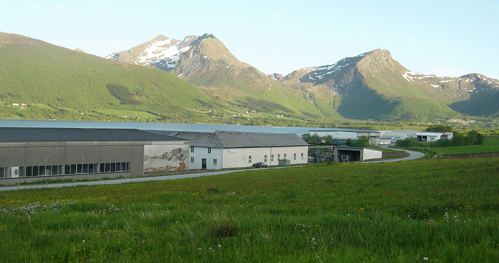 Eide and the Stoneindustries